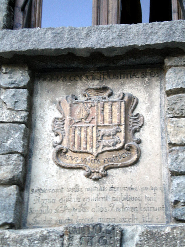 The coat of arms of Andorra, on the wall of the Andorran parliament building, the Casa de la Vall, in Andorra la Vella